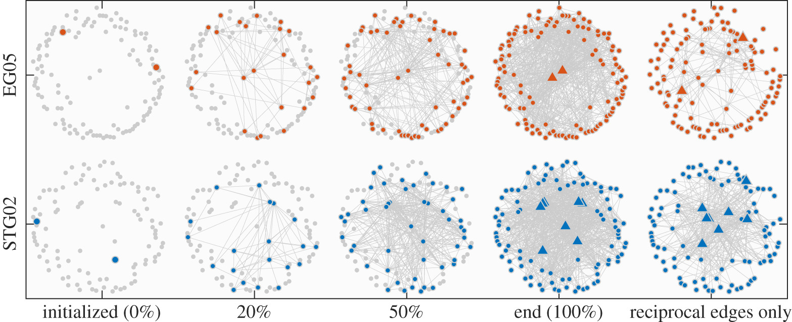 This picture is a diagram/figure from a 2019 open-access, computer science study on social networks and polarization. The top and bottom figures represent the growth of two different social media bots that were used in the study.